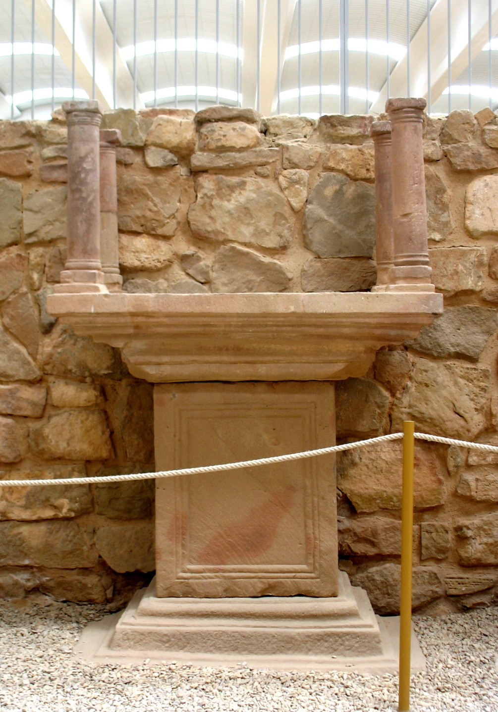 Roman villa of Las Musas, Arellano, Navarre, Spain